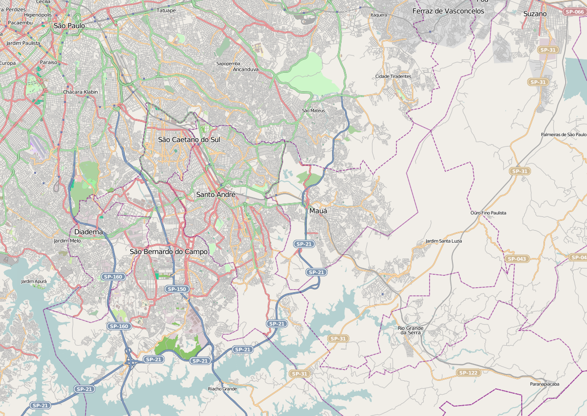 Map showing Rio Grande da Serra and Paranapiacaba in relation to Sao Paulo centre.